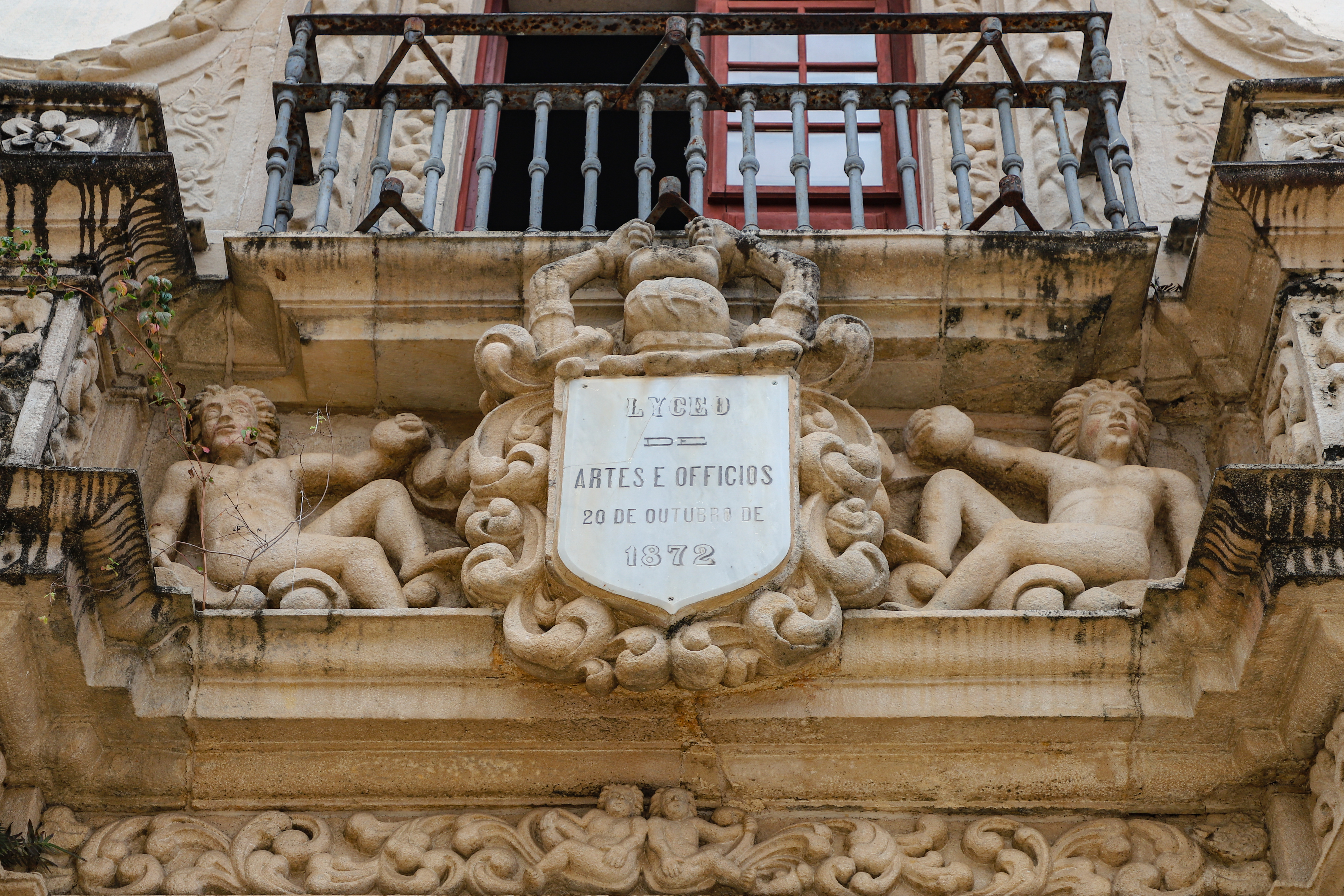 Portal, Palácio do Saldanha, Salvador, Bahia, Brazil.